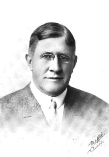 William D. Boyce, early founder of Boy Scouts of America